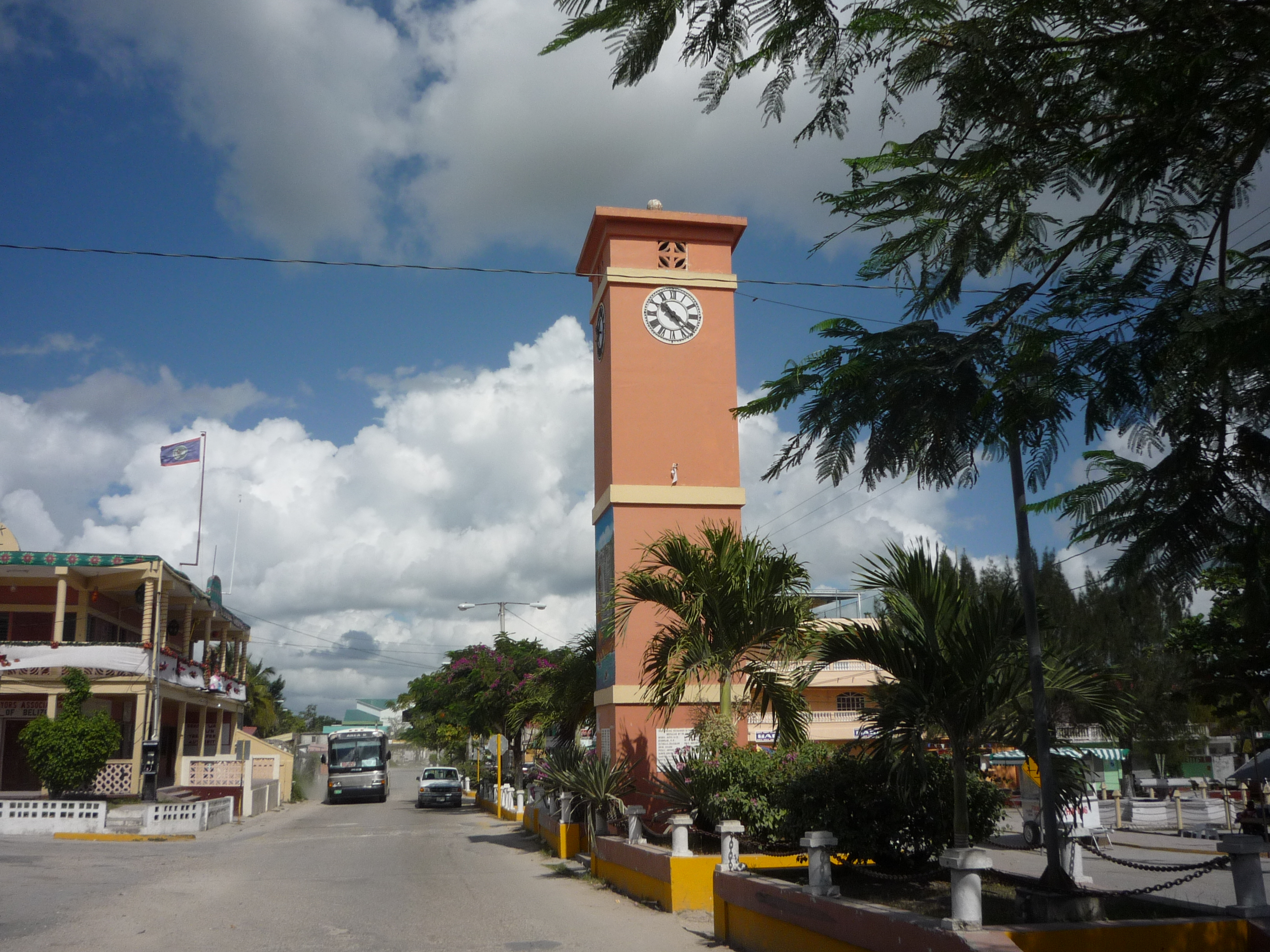 Street, park, and clock tower in Orange Walk Town, Belize.